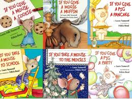 If You Give... book cover medly, illustrated by Felicia Bond, illustrator of the If You Give... series